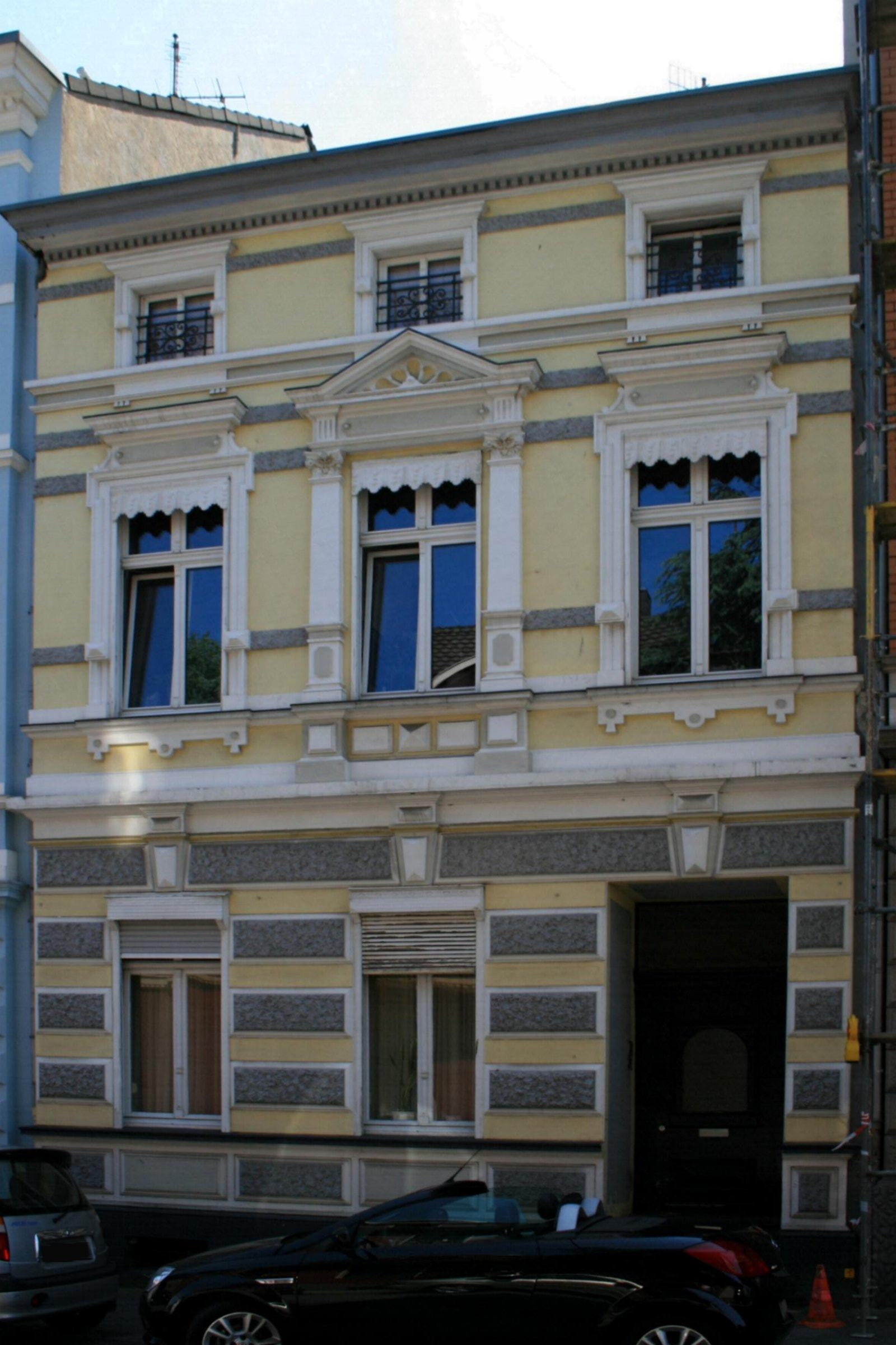 Cultural heritage monument No. F 005 in Mönchengladbach